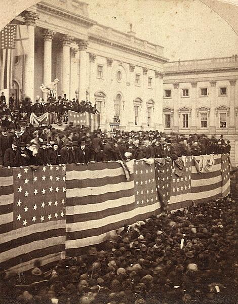 Rutherford B. Hayes, presidential inaugurations